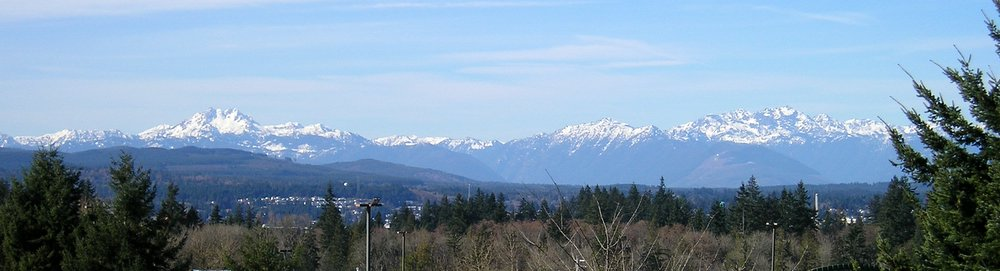 Olympic Mountains with their winter coat of snow, as seen from Port Orchard, Washington.